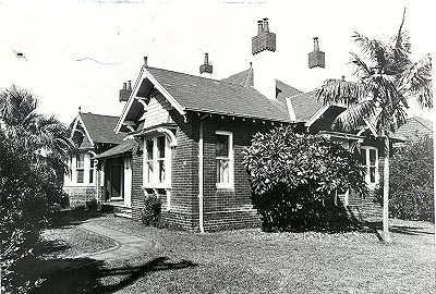 Derrylyn